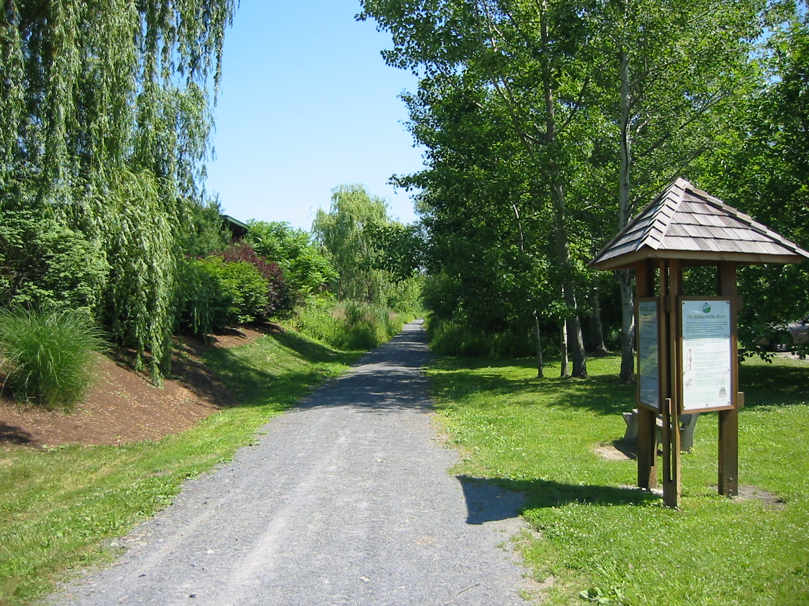 I took this picture and grant Wikipedia full permission to use it. This photo shows the Wallkill Valley Rail Trail in Gardiner, New York, from Route 44/55.